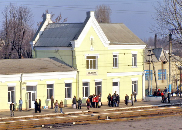 The railway station in Kodyma city, Kodyma Raion, Odessa Oblast, Ukraine